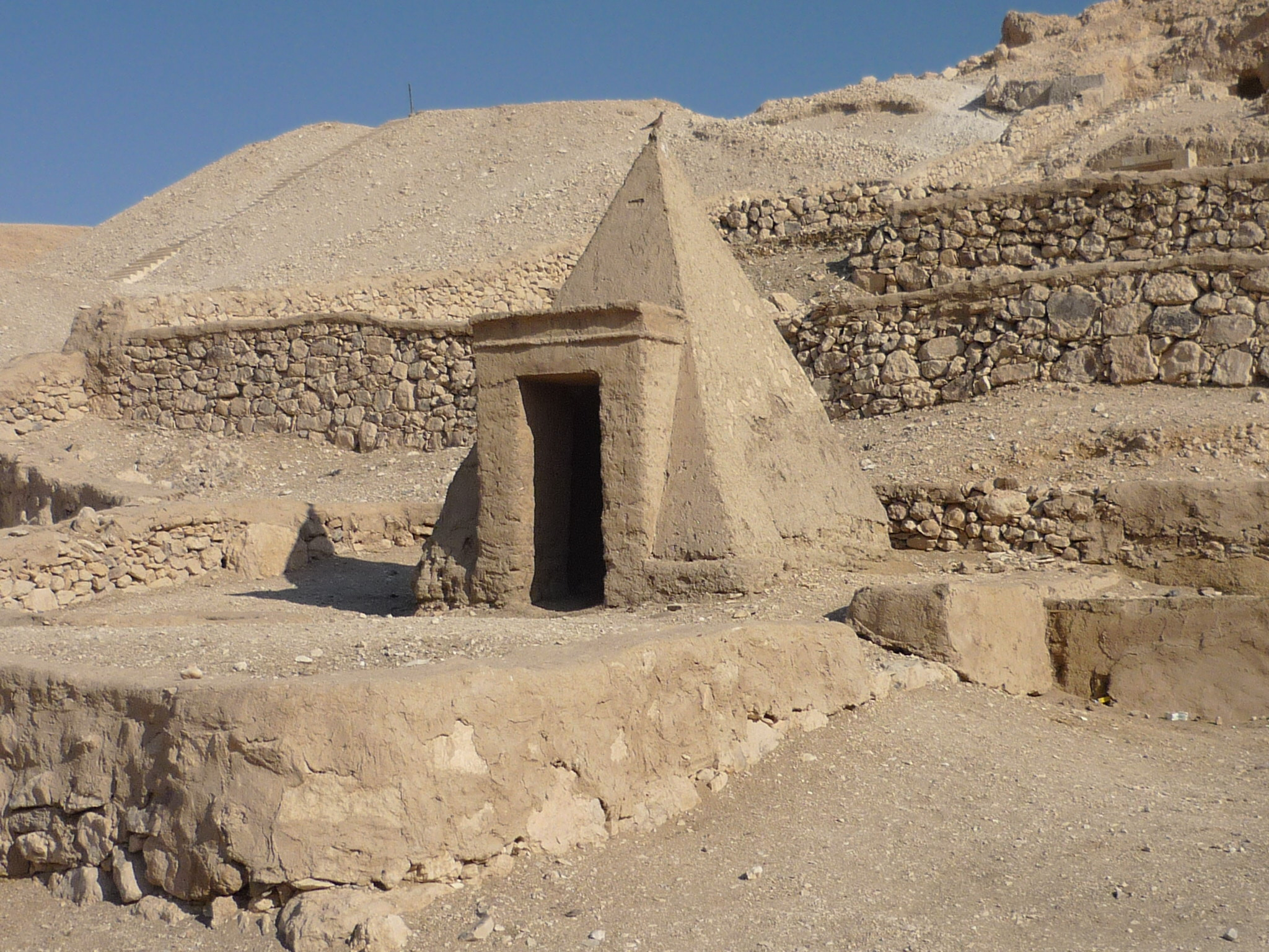 Tomb at the entrance of Deir el-Medina, Theban Necropolis, Egypt